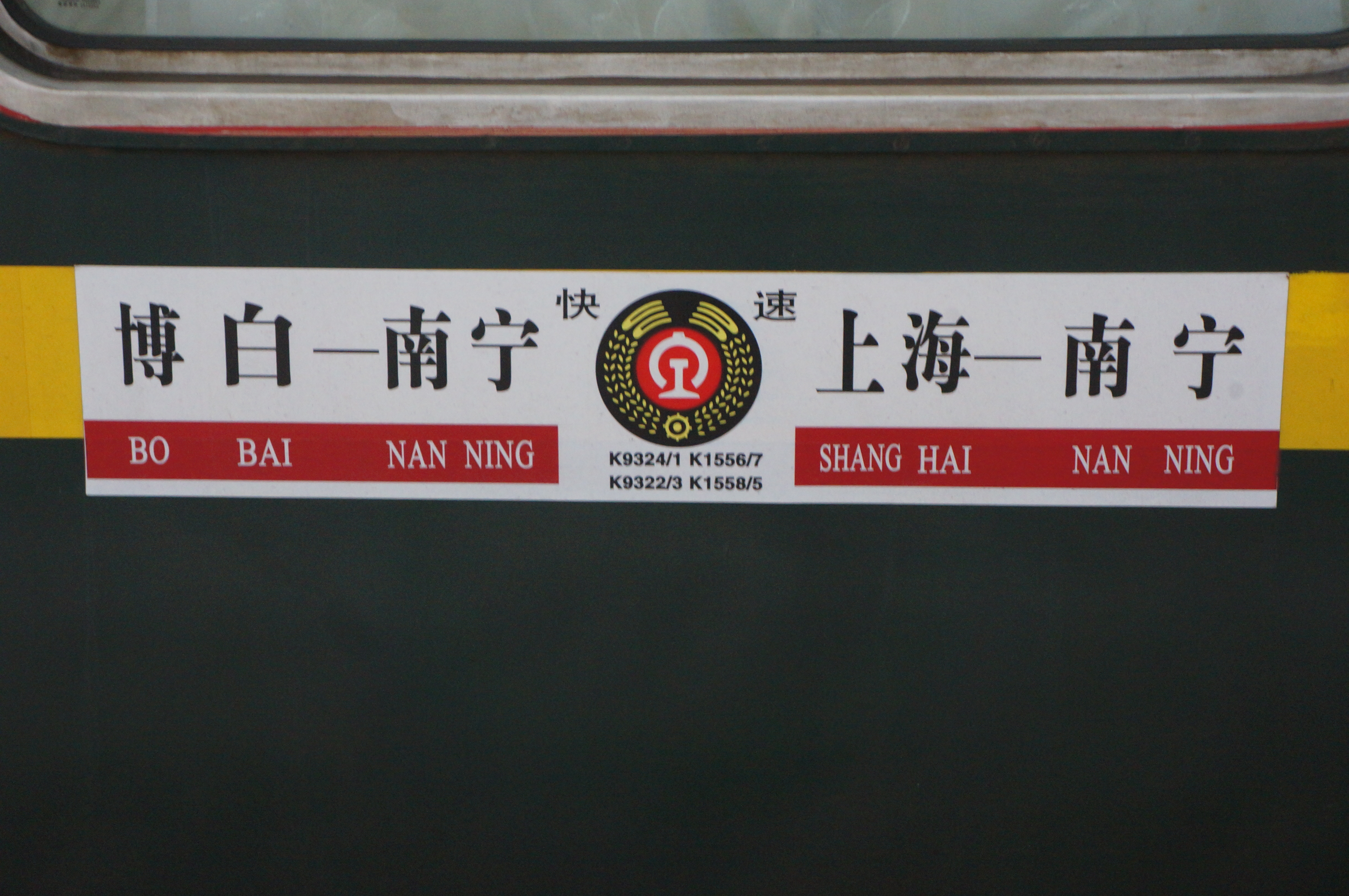 K1555 6 7 8 infoboard in 201704. I was surprised when I saw the term "Bobai"